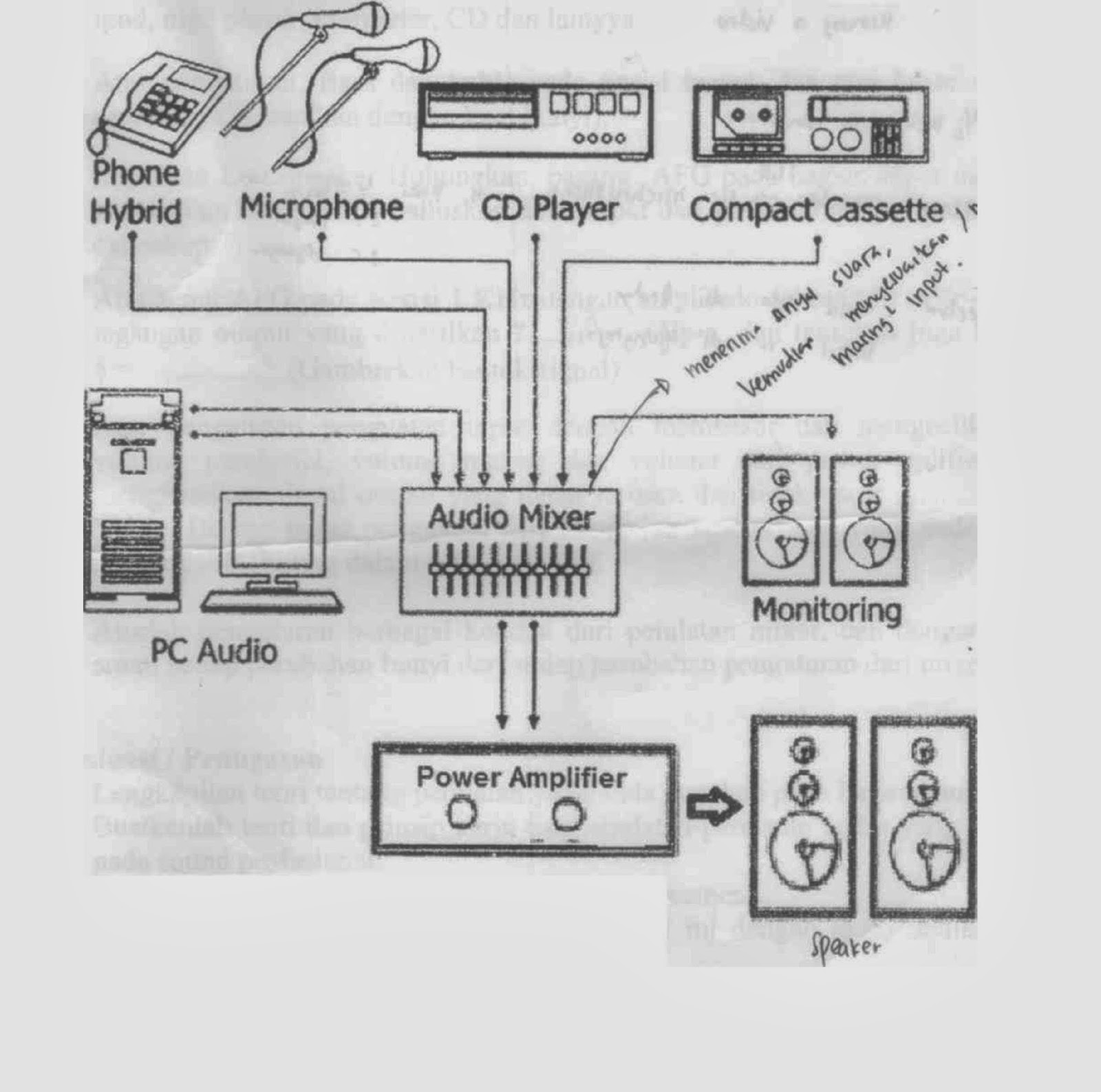 Sebuah contoh pengaturan system tata suara yang paling sederhan